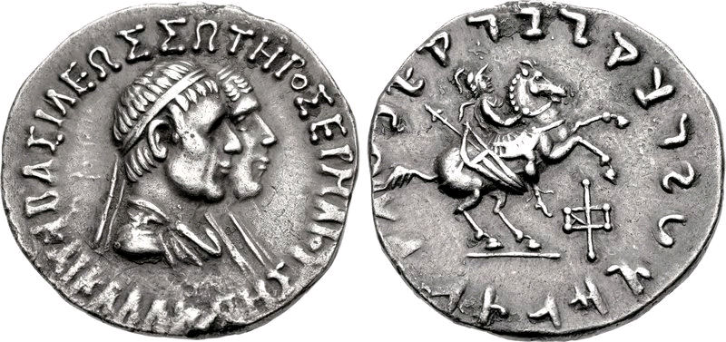 Hermaios and Kalliope with Hypostratos on horseback 105 BCE